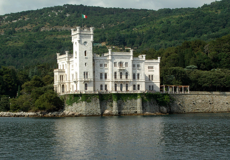 The castle of Miramare from boat, Trieste, Italy